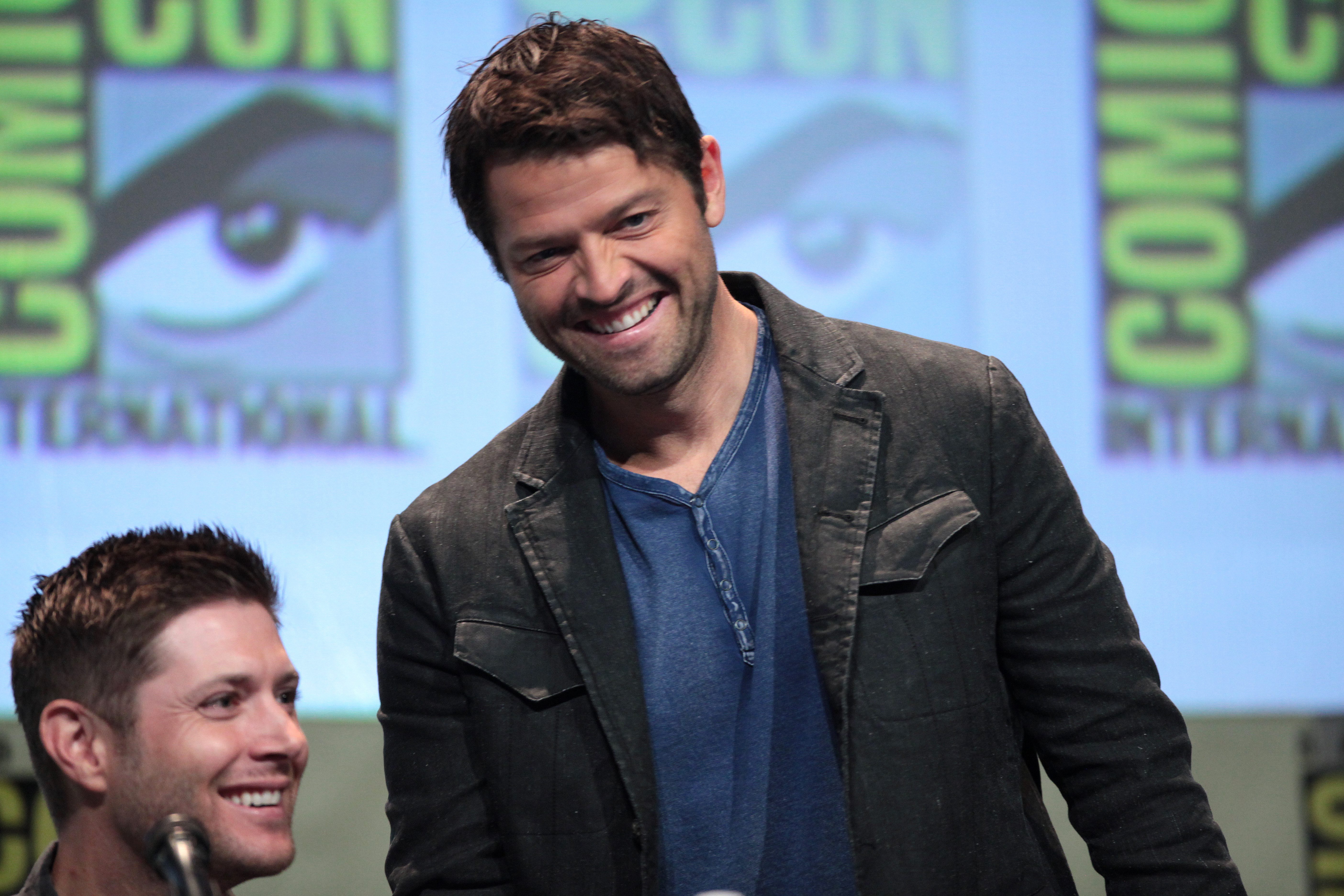 Jensen Ackles and Misha Collins speaking at the 2015 San Diego Comic Con International, for "Supernatural", at the San Diego Convention Center in San Diego, California.